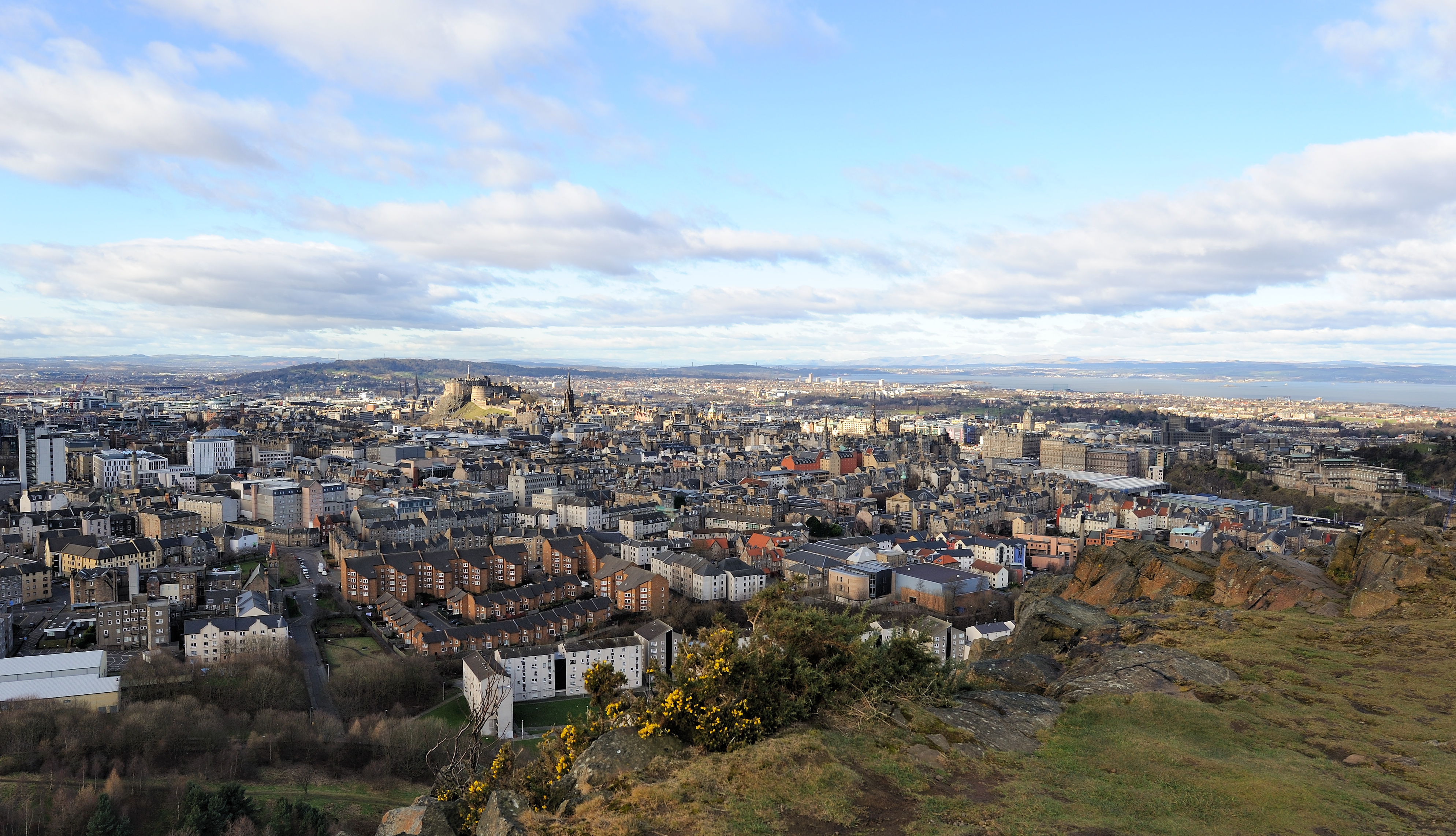 Ediburgh City overview from the Salisbury Crags. Ediburgh Castle still dominates the skyline from its vantage on top of Castle Rock.